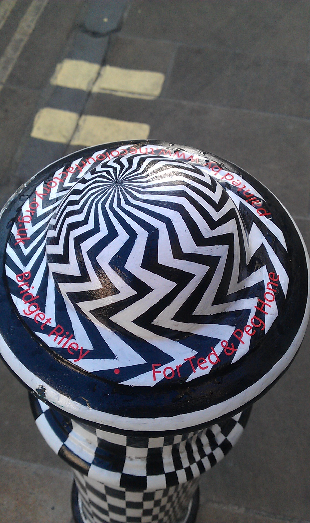 Top of a bollard in Winchester, England, painted in the style of Bridget Riley. This is one of a series, on the corner of Great Minster Street and The Square, painted by